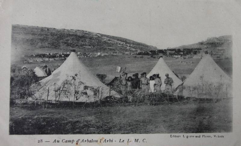 A rare photo card shows a military field brothel in Morocco. Two dark skinned women pose with soldiers outside the tents used for the sexual encounters. The caption reads "At Camp d'Arbalou l’Arbi. The B.M.C."